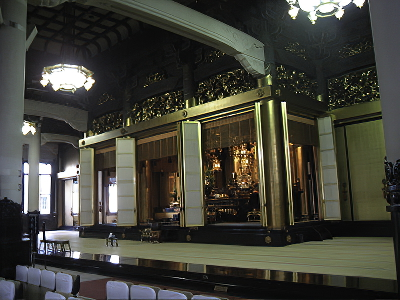 The main altar inside the temple Tsukiji Hongwanji. Taken with permission of the Tsukiji staff in October 2007.